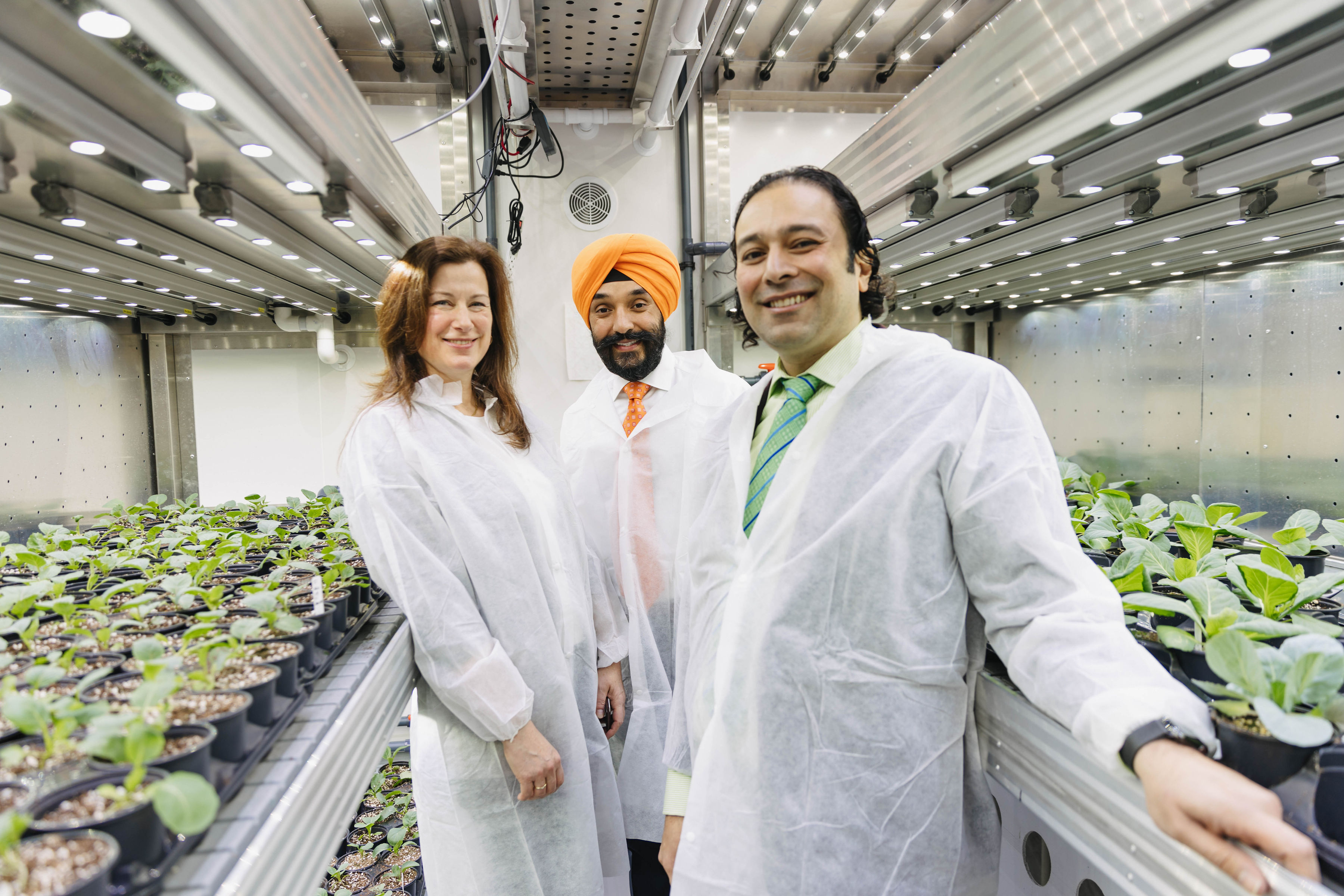 Terramera CEO Karn Manhas, Terramera Chief Scientific Officer Annett Rozek and the Minister of Innovation, Science and Economic Development Canada, Navdeep Bains touring Terramera’s Research Growth Chambers in Vancouver, BC.